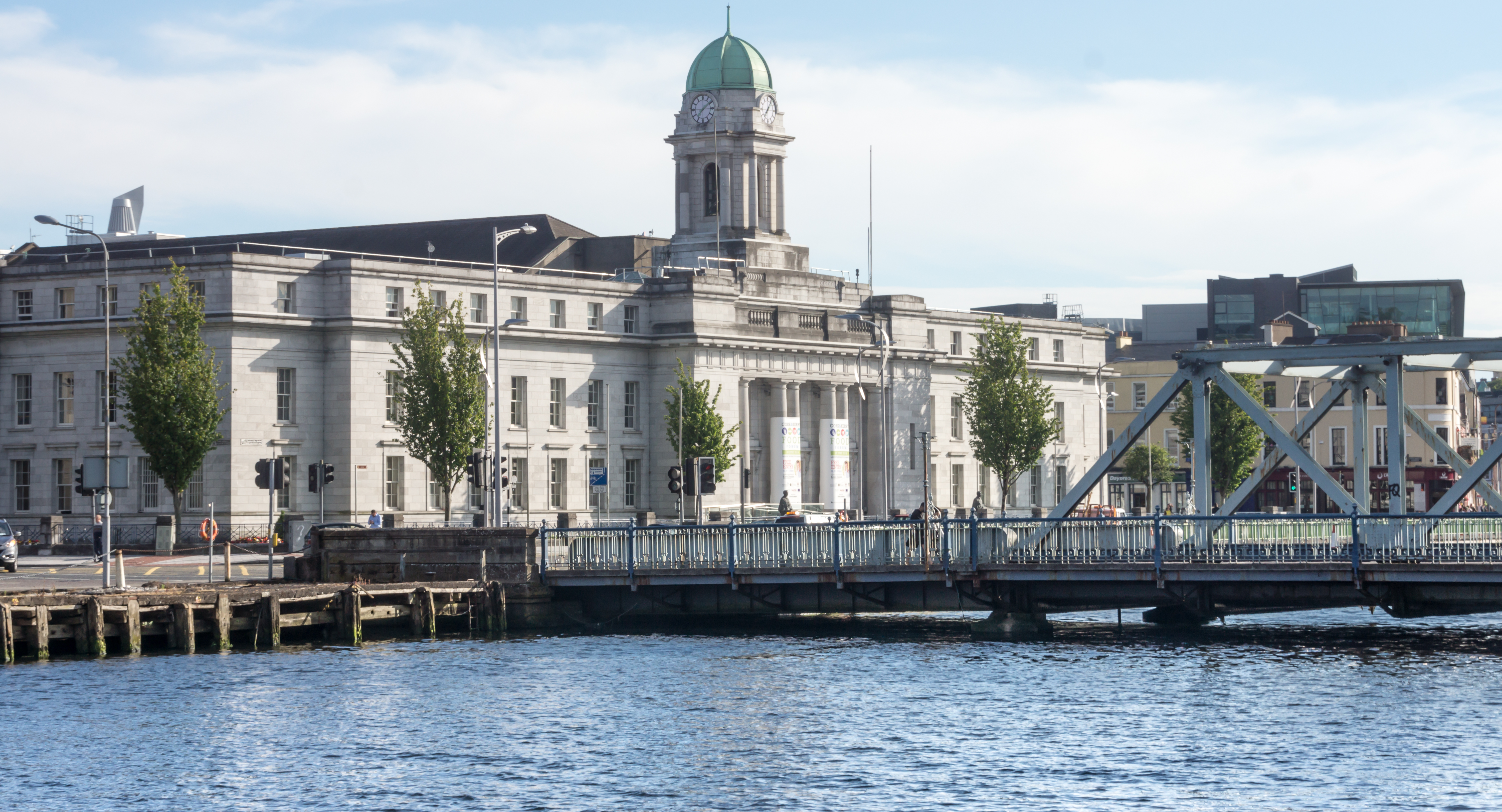 Cork City Hall (2014)